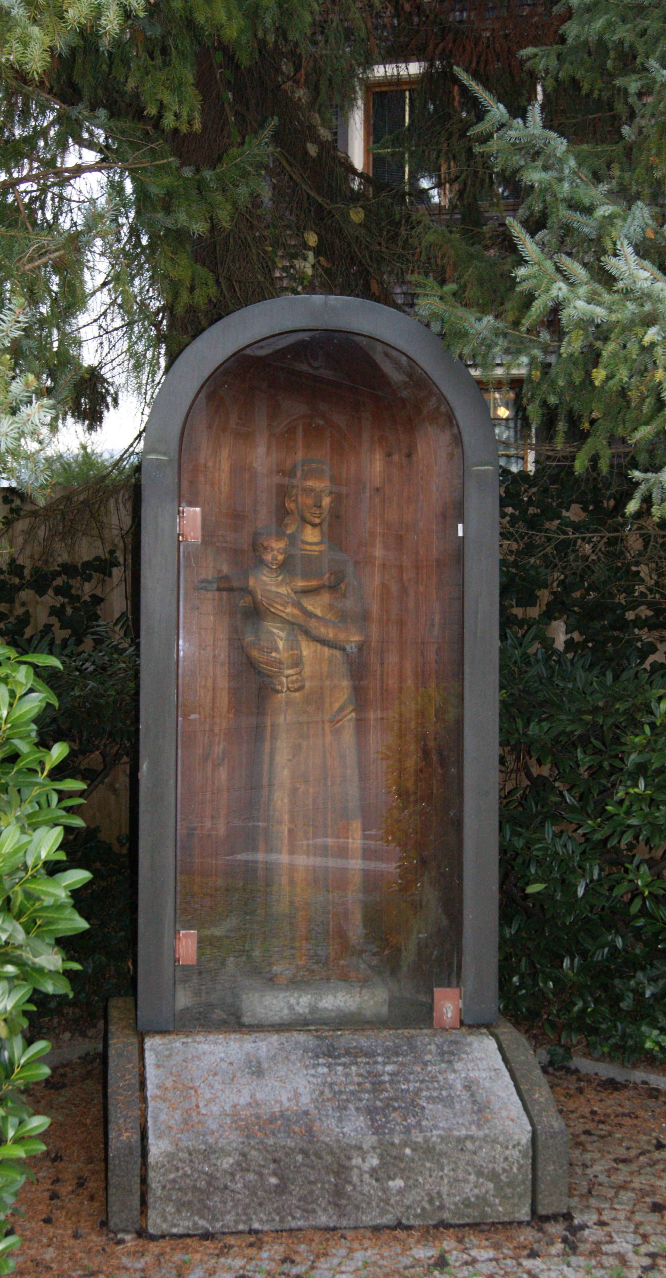 Wayside shrine in in Hohenems, Vorarlberg, Austria on the Radetzky-road. Popularly known as "Madonna in the bathtub".